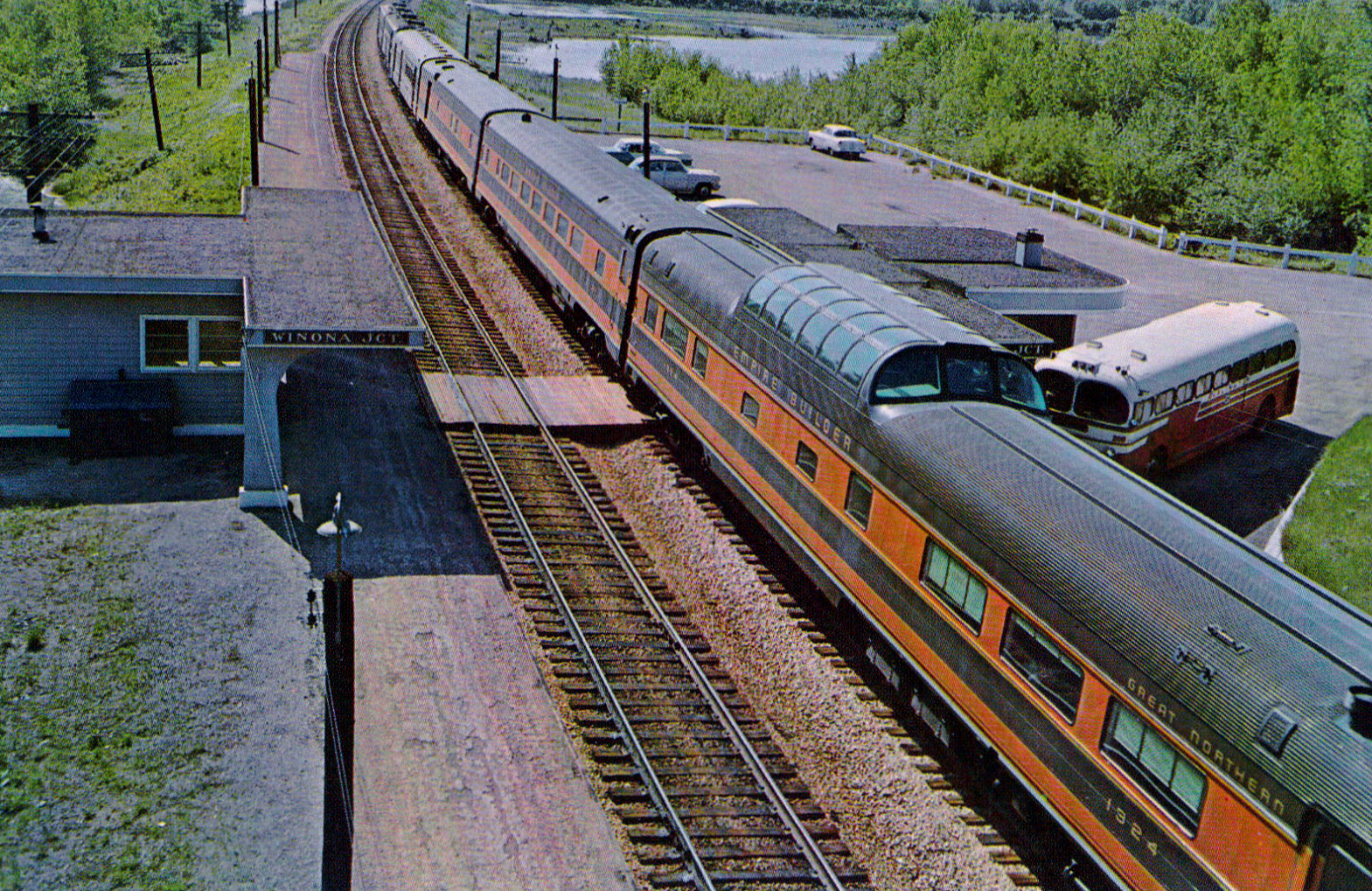 Postcard photo of the Great Northern's Empire Builder at Winona, Minnesota in 1958. One of the dome cars is shown in the photo.